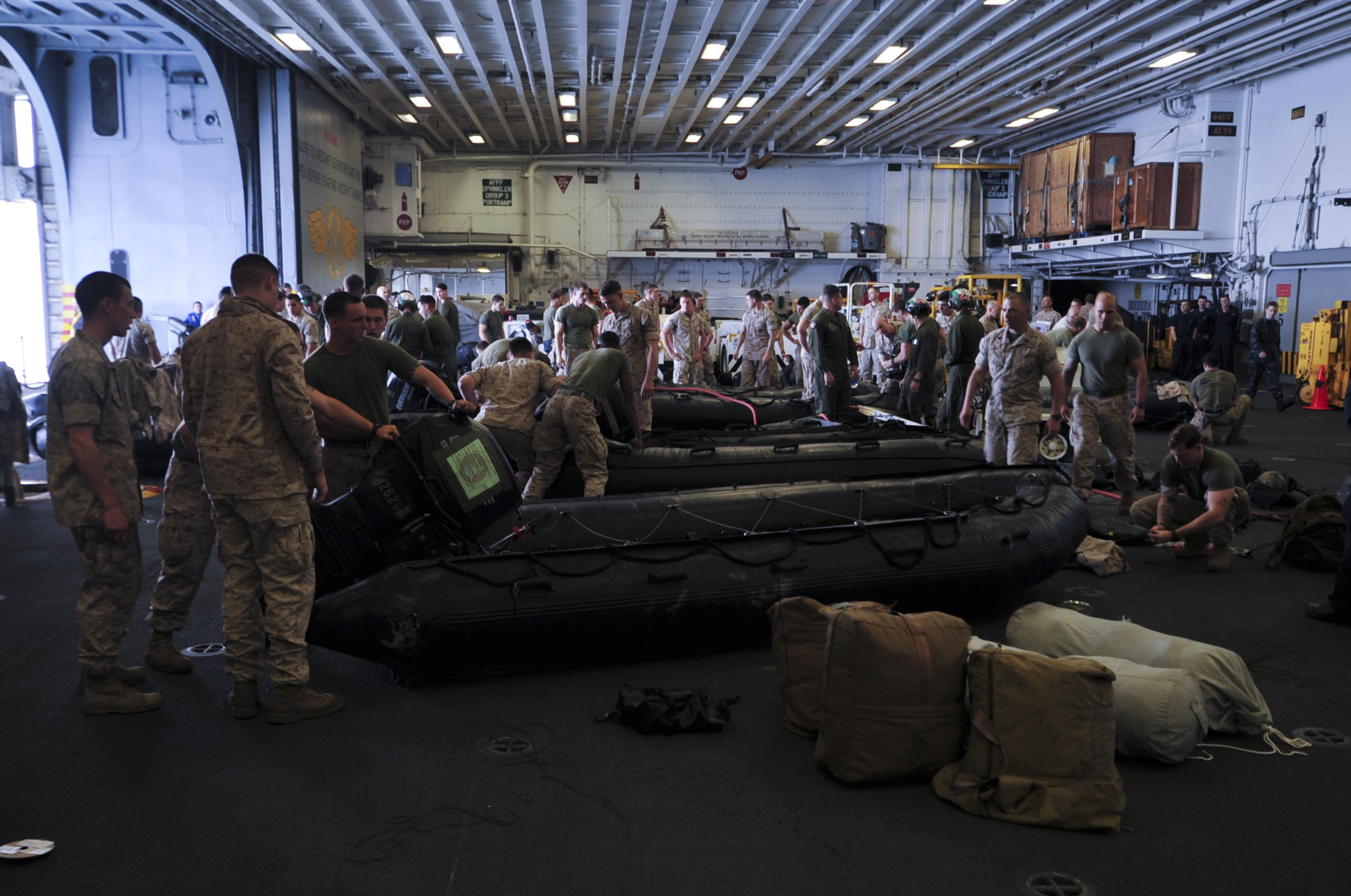 Marines assigned to the 31st Marine Expeditionary Unit prepare combat rubber raiding crafts (CRRC) in the hangar bay of the forward-deployed amphibious assault ship USS Bonhomme Richard (LHD 6). Bonhomme Richard is responding to the scene of Korean passenger ship Sewol that sank near the island of Jindo off the southwestern coast of the Republic of Korea April 16. (U.S. Navy photo by Mass Communication Specialist 2nd Class Adam D. Wainwright/Released)